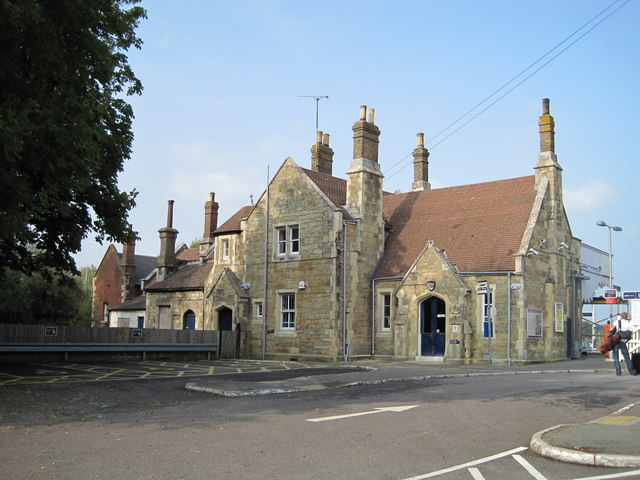 Etchingham Station